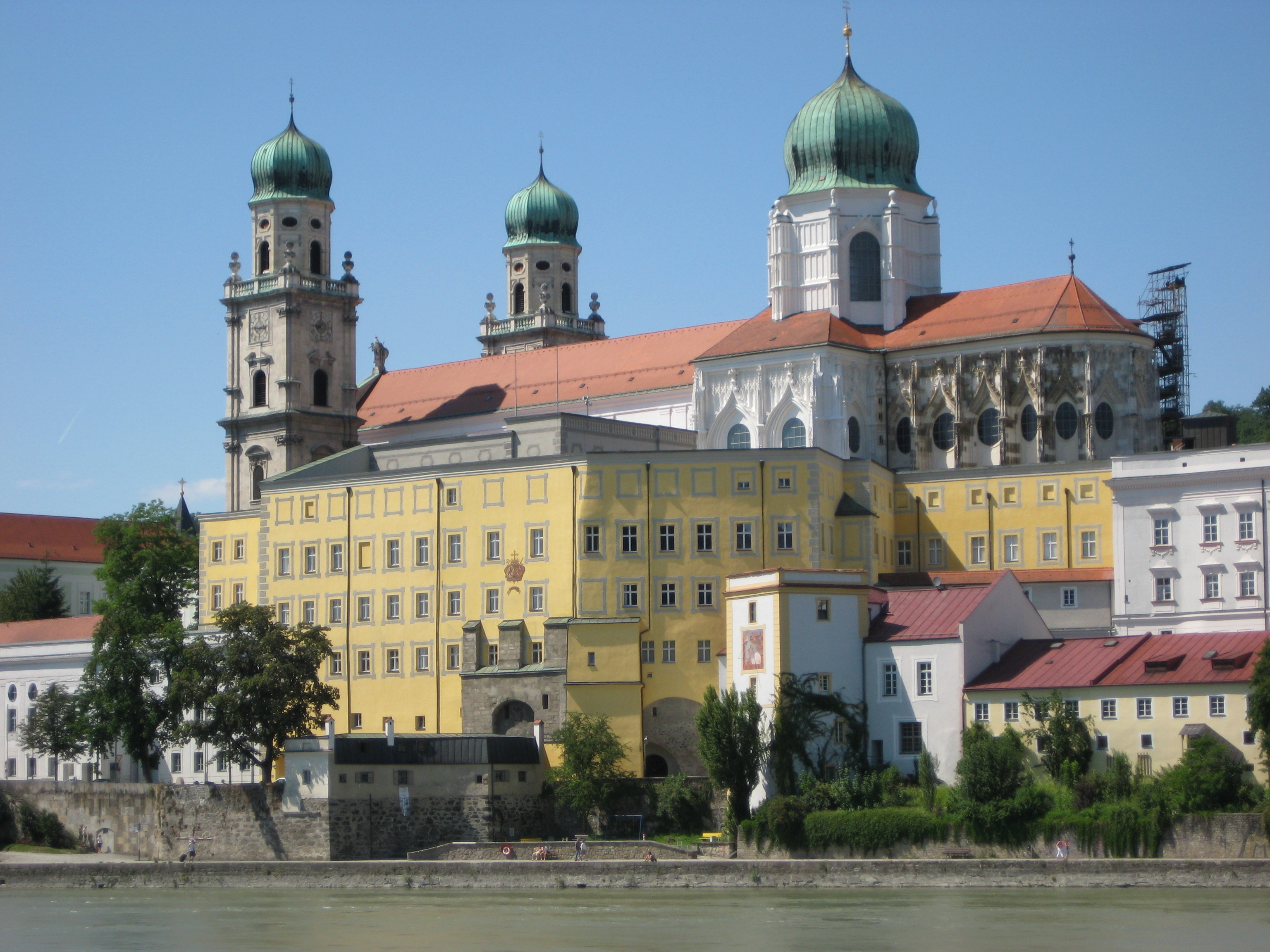 Alte Residenz and St. Stephan's Cathedral in Passau